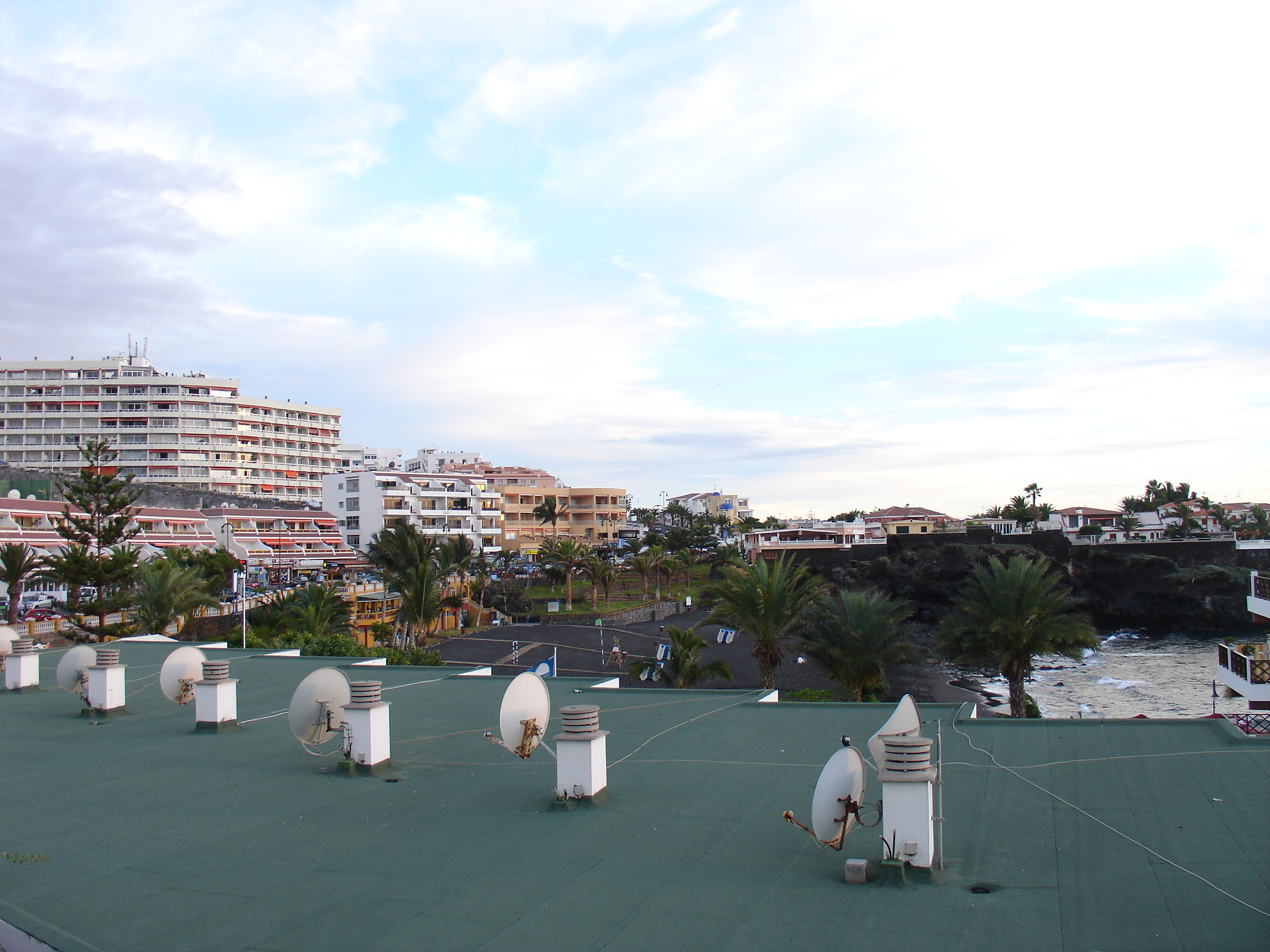 View on the beach and surroundings, Playa de la Arena, Tenerife, Spain.